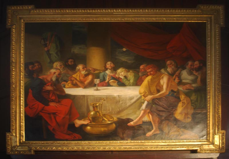 Last Supper by Johann Zoffany